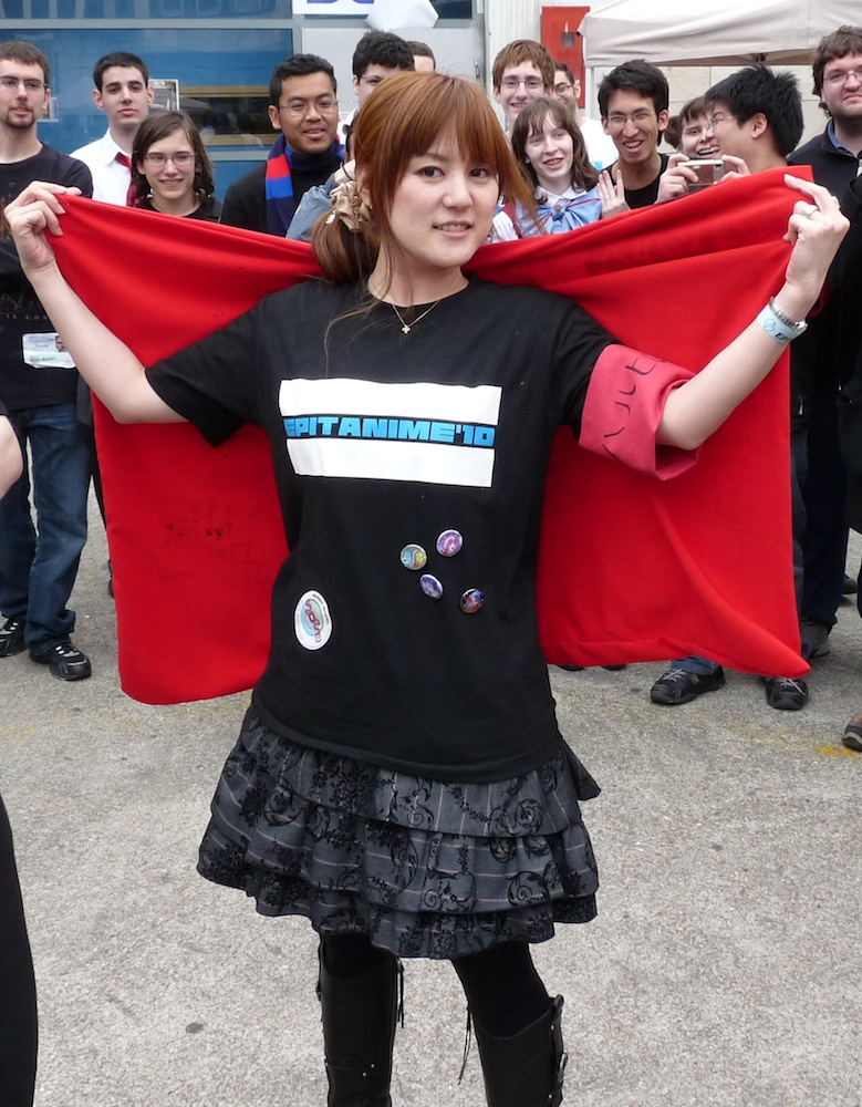 Noizi Ito at Epitanime 2010.中文（台灣）: 伊東雜音於Epitanime 2010。